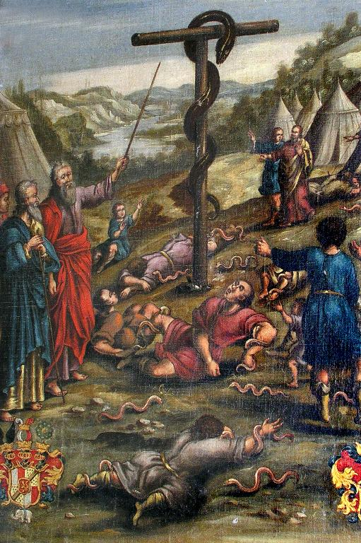 Wrist, Schleswig-Holstein, Germany: church of Stellau, altar-piece, photo 2007